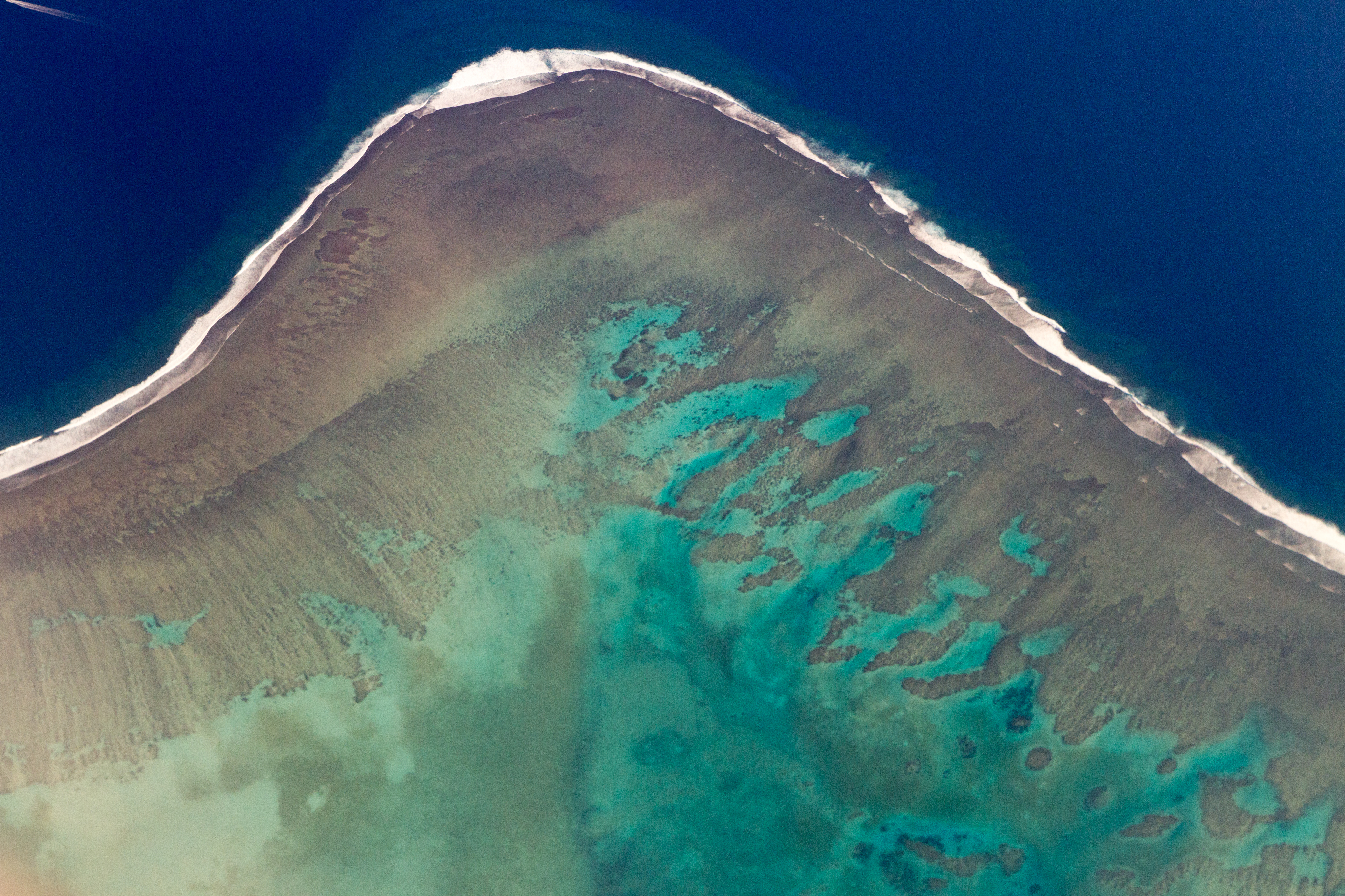 Malolo Barrier Reef